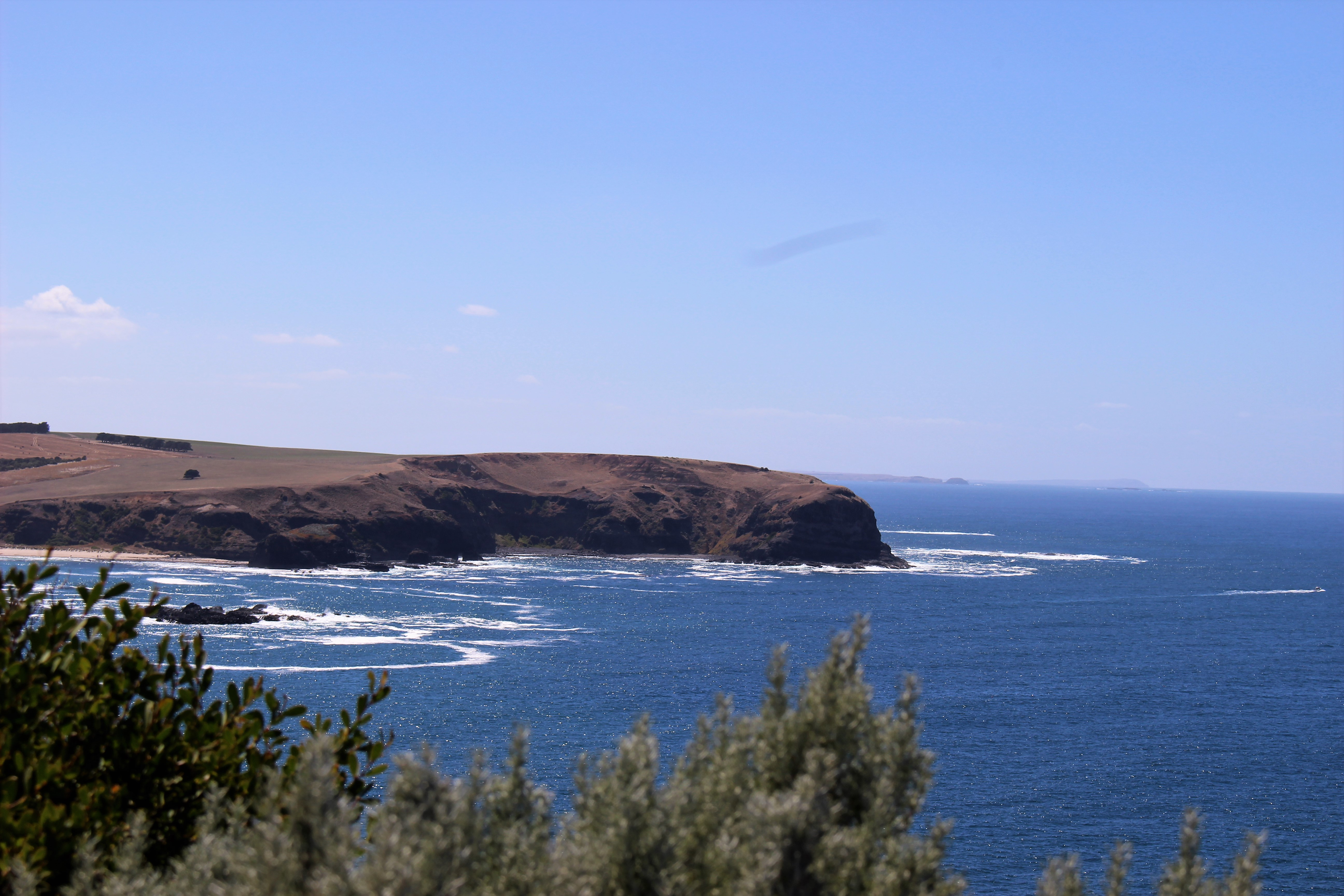 from Cape Schank looking back to Bushrangers Bay